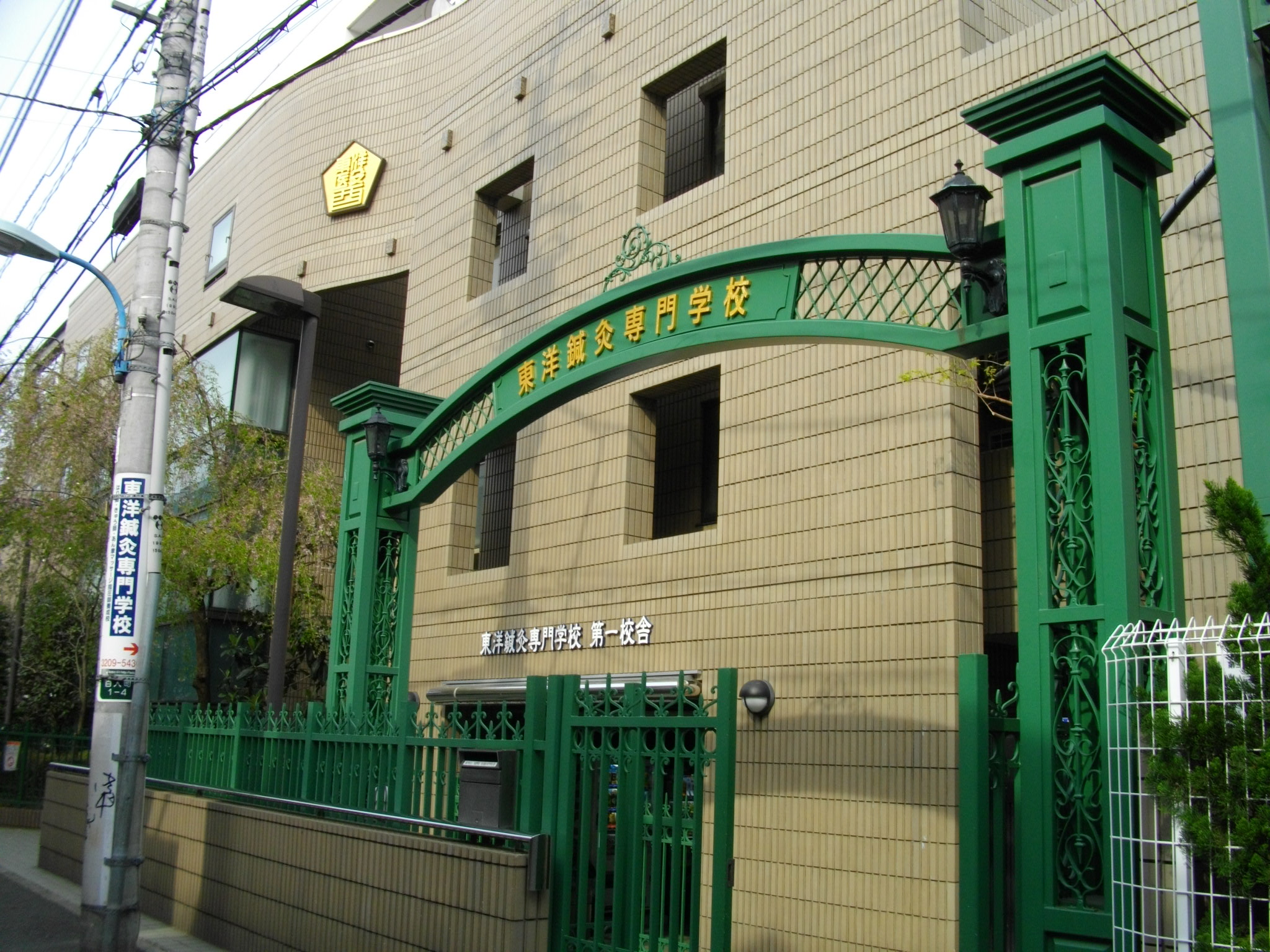 Toyo Shinkyu College of Oriental Medicine